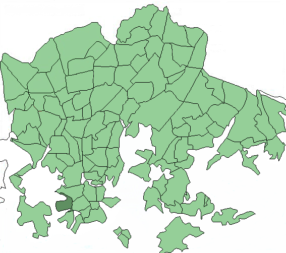 Districts of Helsinki city, Ruoholahti highlighted.